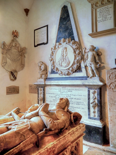 Wall monument to Sir John Curzon, 3rd Baronet in All Saints' Church, Kedleston